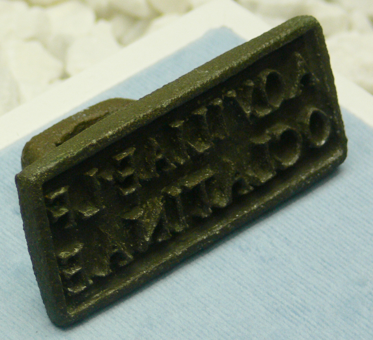 Ancient stamp "AQUILIAE L(ucius) F(iliae) OCLATINAE", Necropolis of Medulin-Burle, Istria , 1st–4th century AD Collection: Archeological Museum, Pula, Croatia